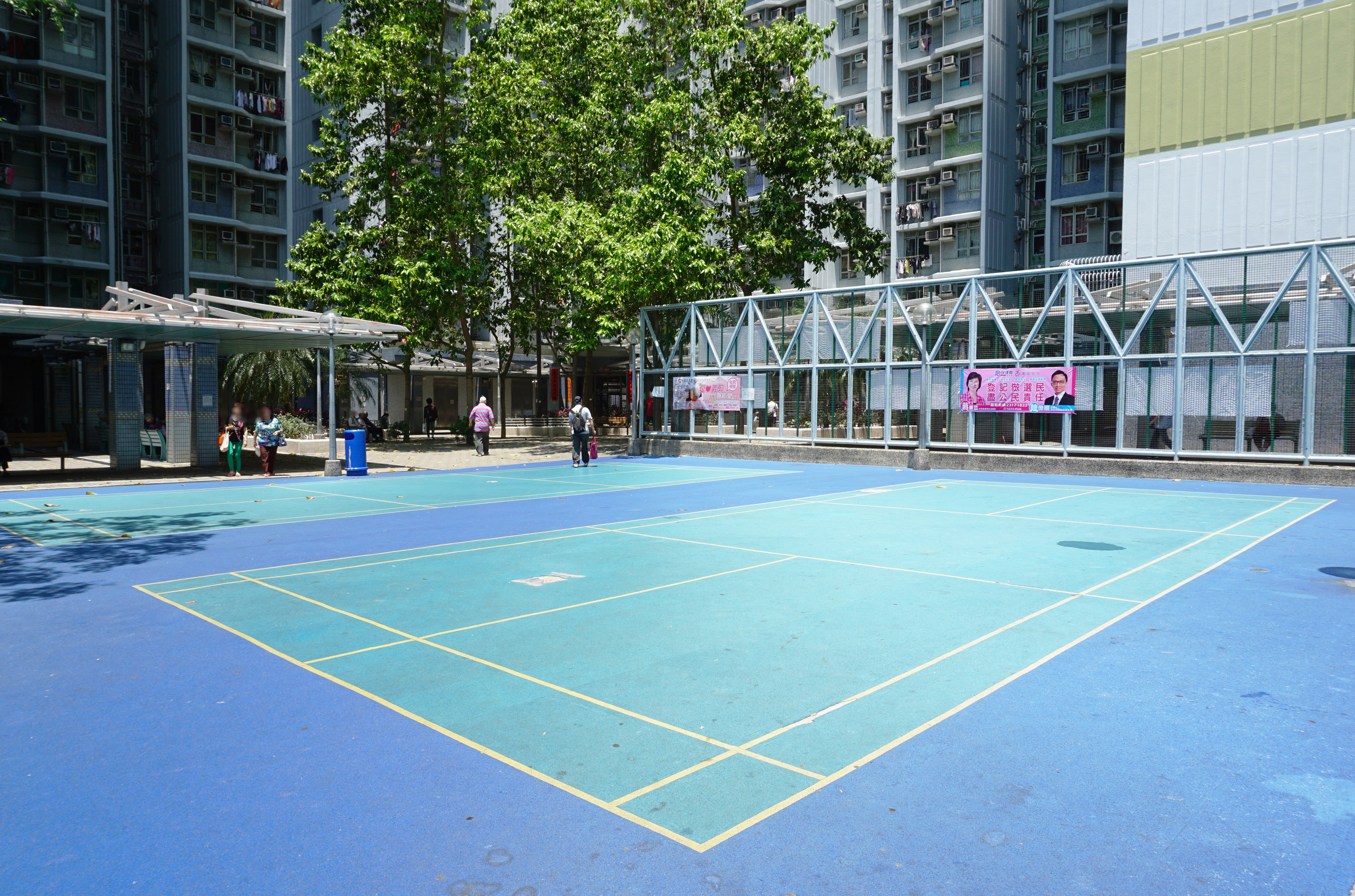 Un Chau Estate in Cheung Sha Wan, Hong Kong.